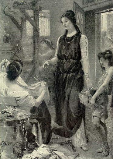 From a drawing of André Castaigne. Livia, the wife of Augustus, superintending the weaving of robes for her family.